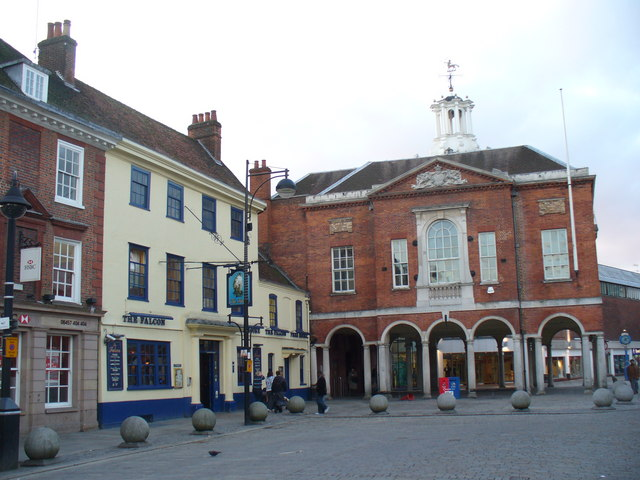 High Wycombe Guildhall This historic building dates from 1757. Above the columns is the Council Chamber. To the left is the old Falcon, now a pub in the Wetherspoon chain - and worth a visit.